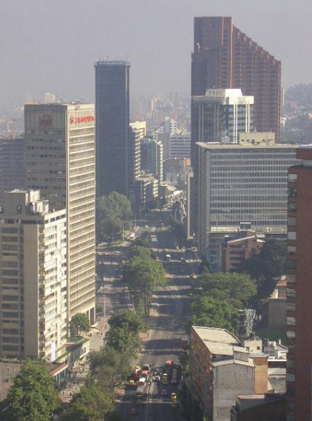 Building in the 7th avenue